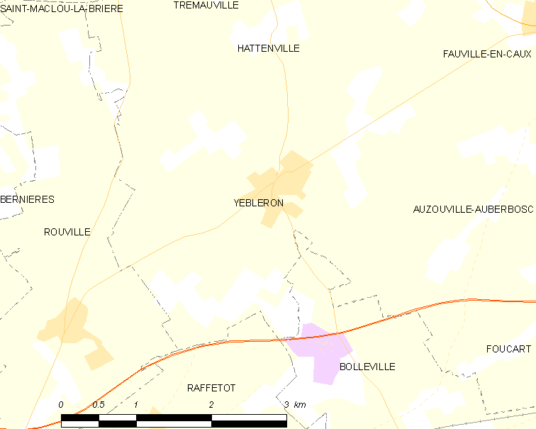 Map of French municipality Yébleron